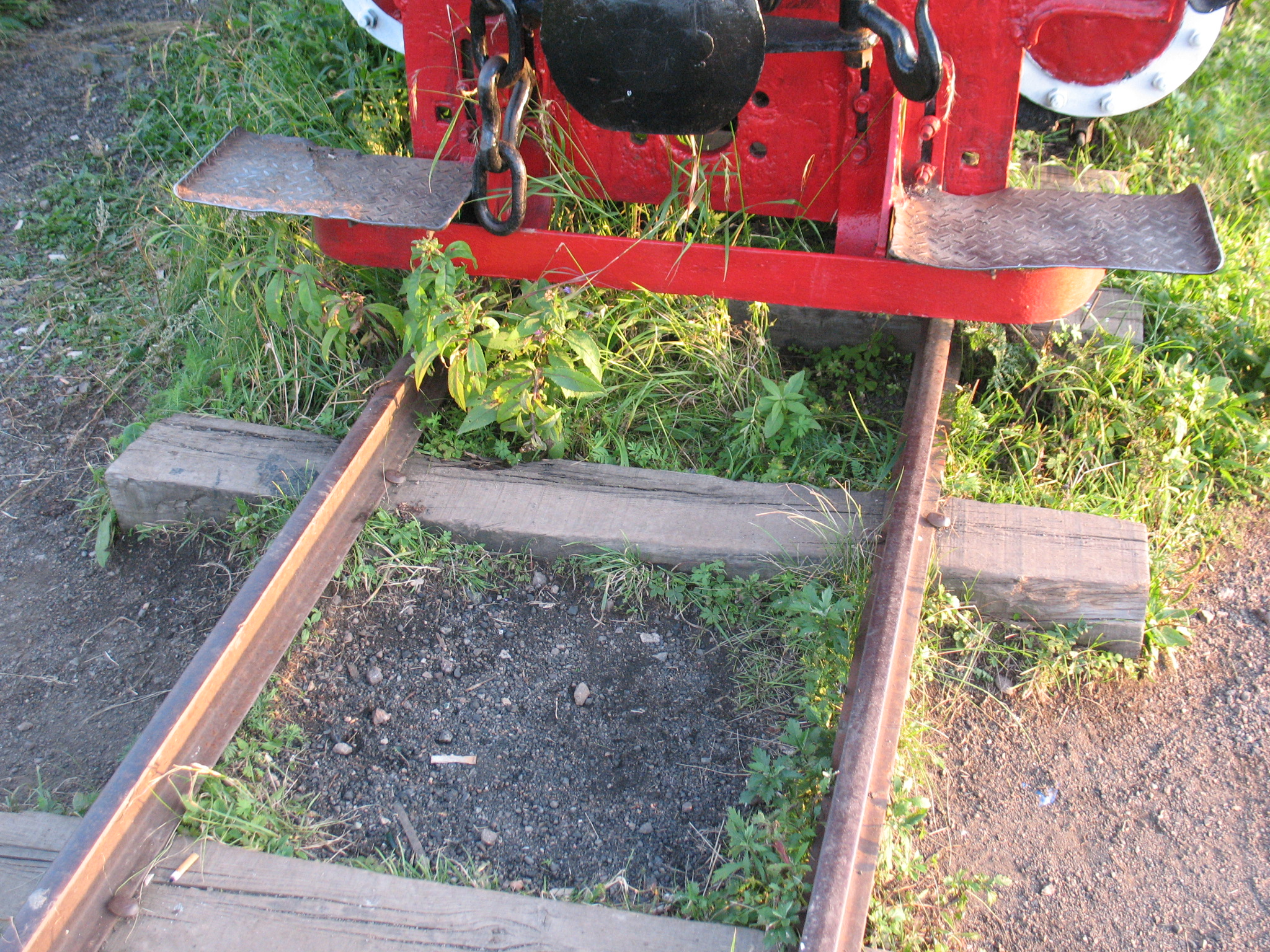 Steam locomotive on the narrow-gauge of the Arxan forrest railway